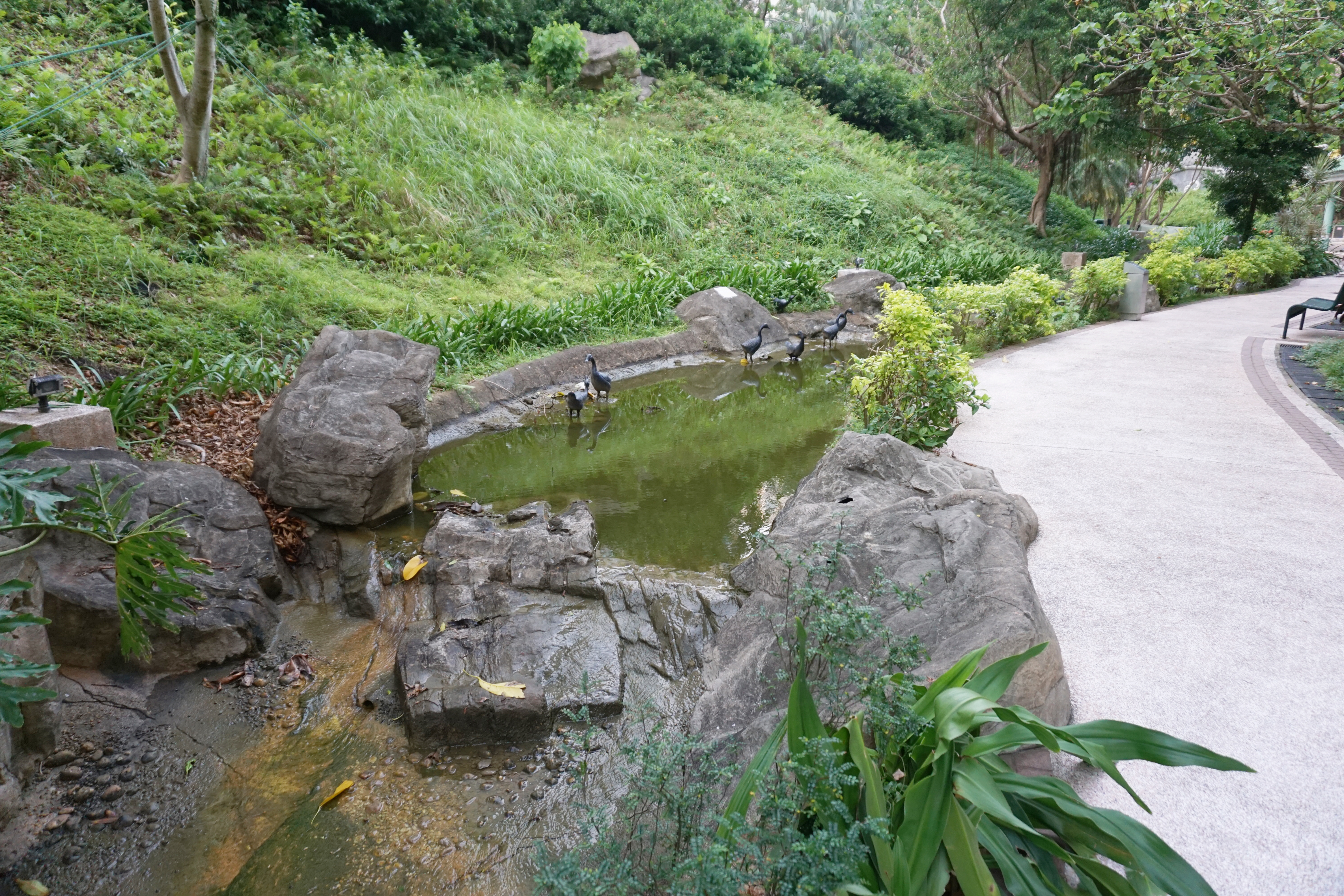 Lung Tak Court in Stanley, Hong Kong.